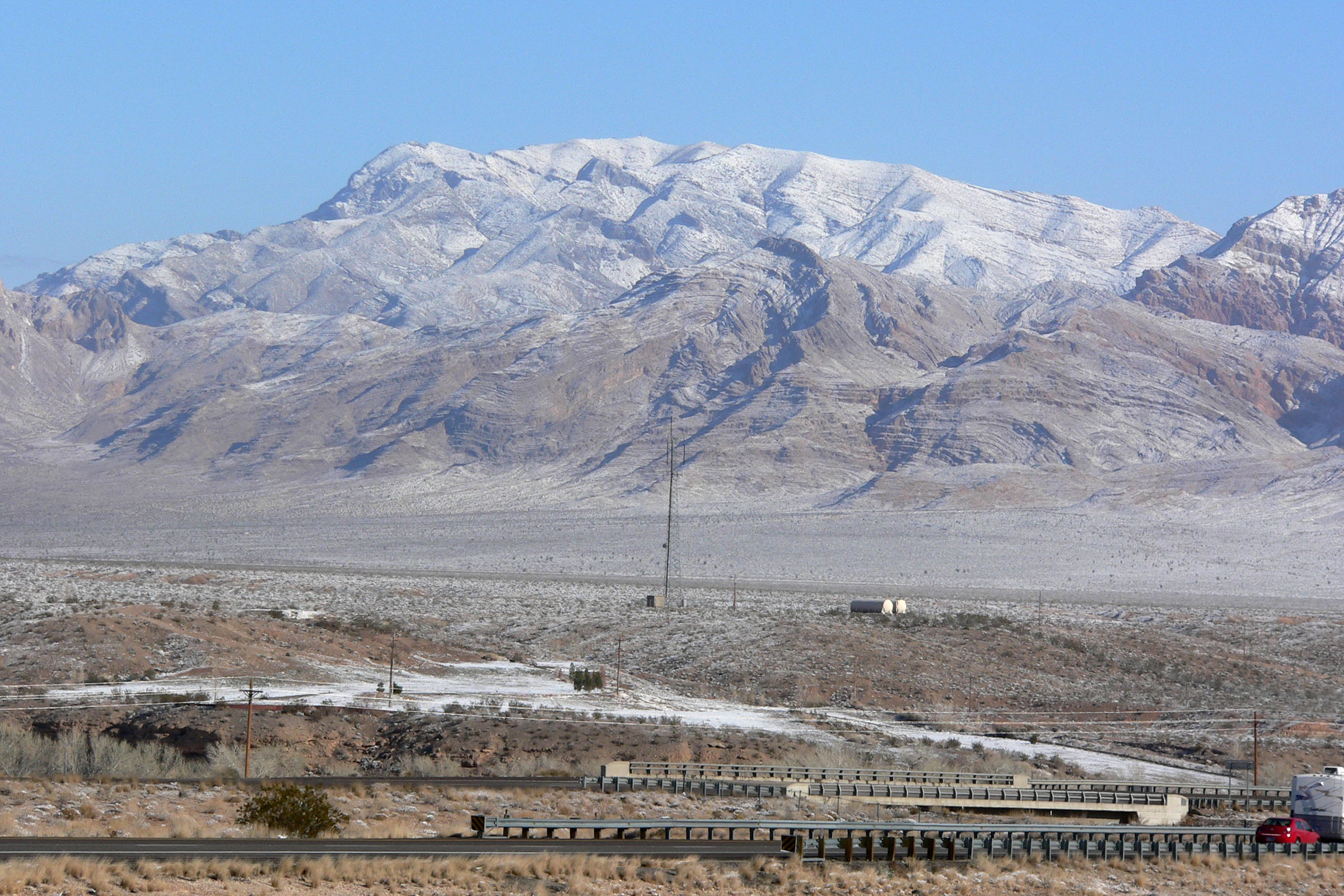 The Beaver Dam Mountains (with north section massif and North Mountain Peak (Washington County)-south section at right) — in the Arizona Strip region. As seen from Interstate 15 in Arizona near Littlefield.